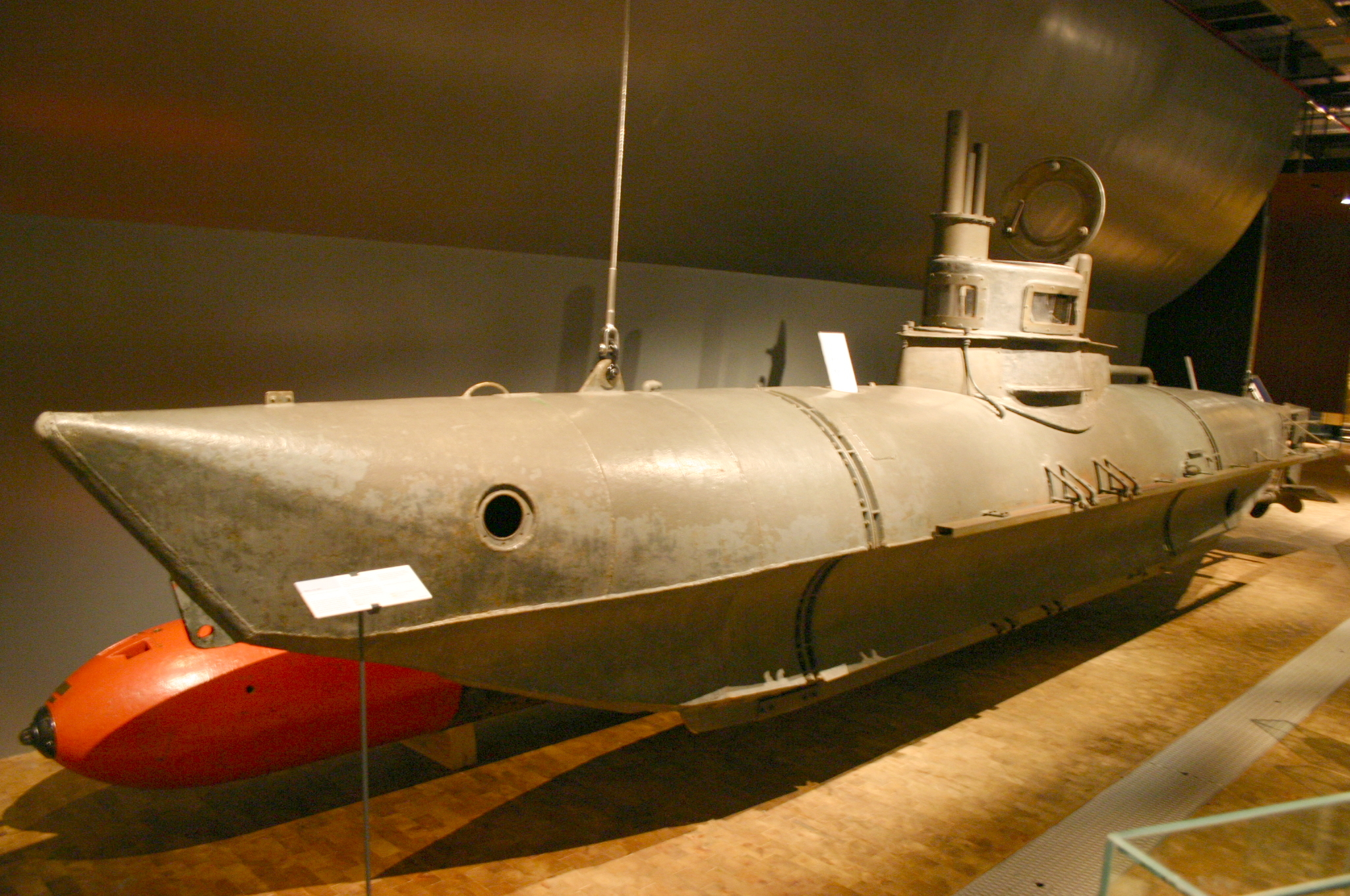 Midget submarine Typ BIBER German Technic Museum Berlin 14.04.05